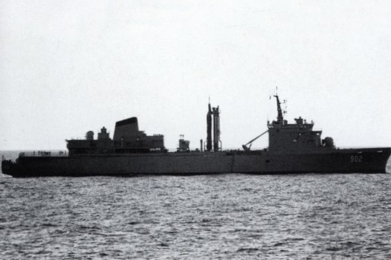 The Saudi Arabian Boraida-class replenishment oiler Boraida (902) underway in the Red Sea, in 1991.